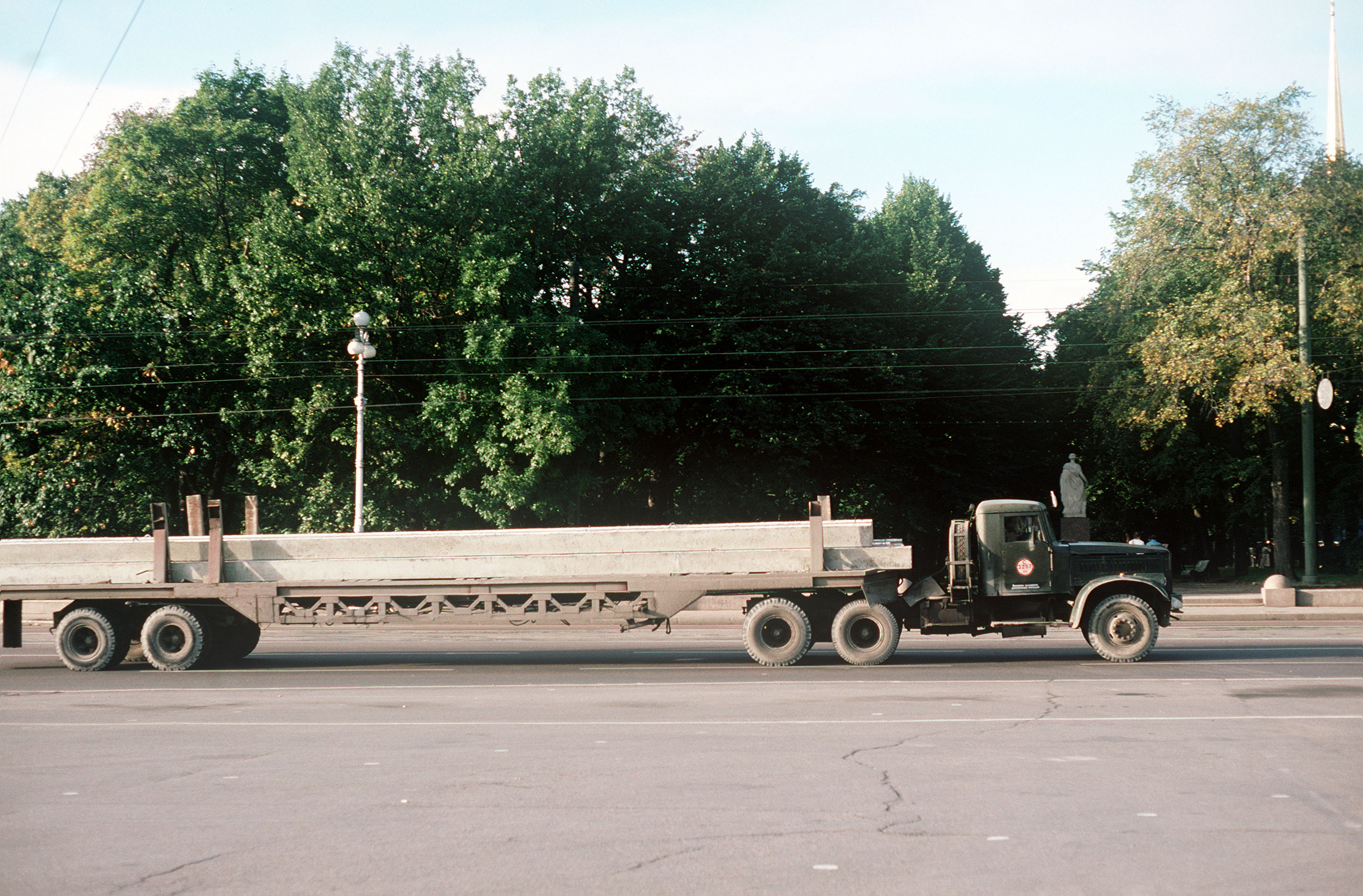 A view of a KrAZ-258 6×4 tractor truck and transport trailer in Leningrad in 1985.